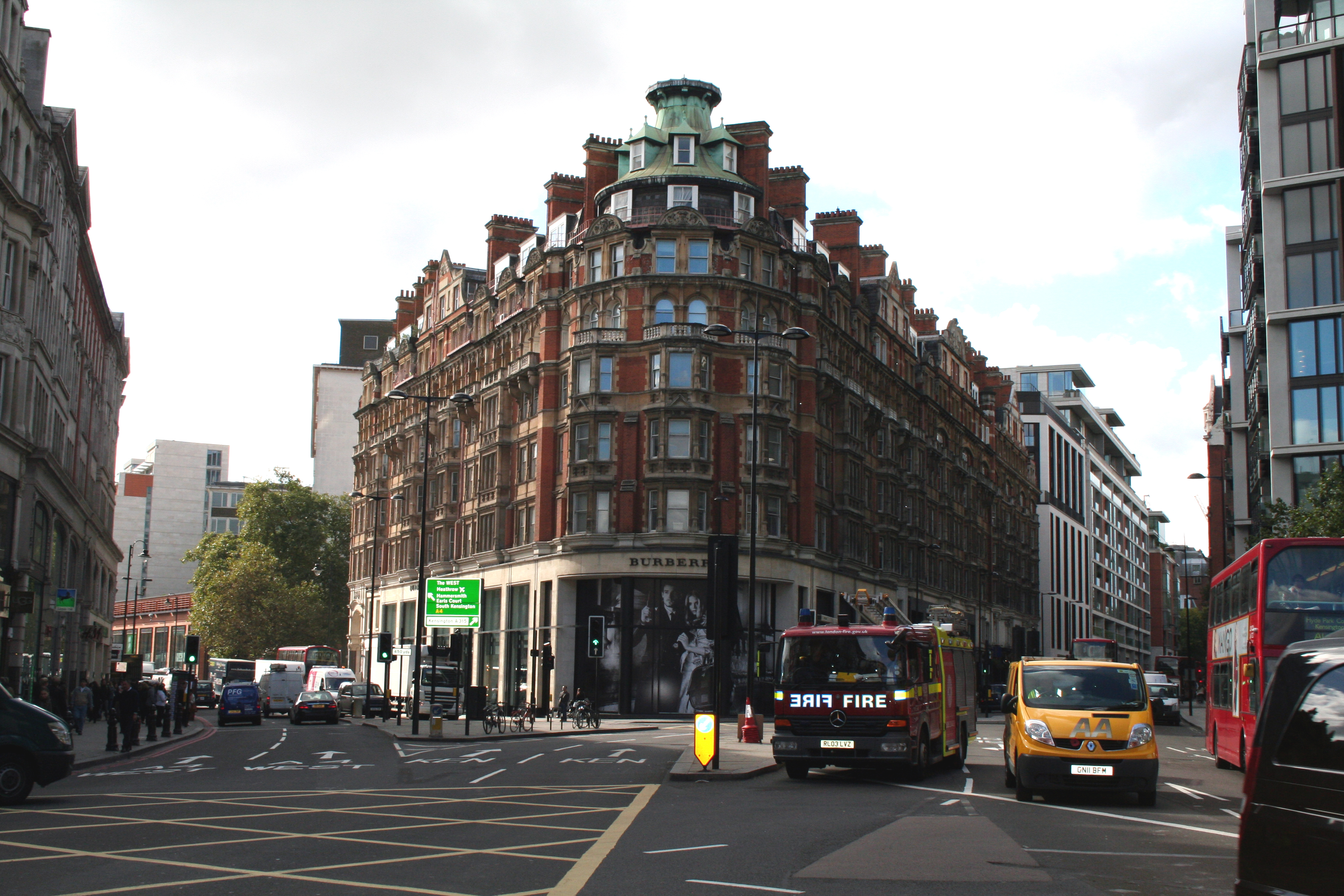 Knightsbridge Corner and Burberry's